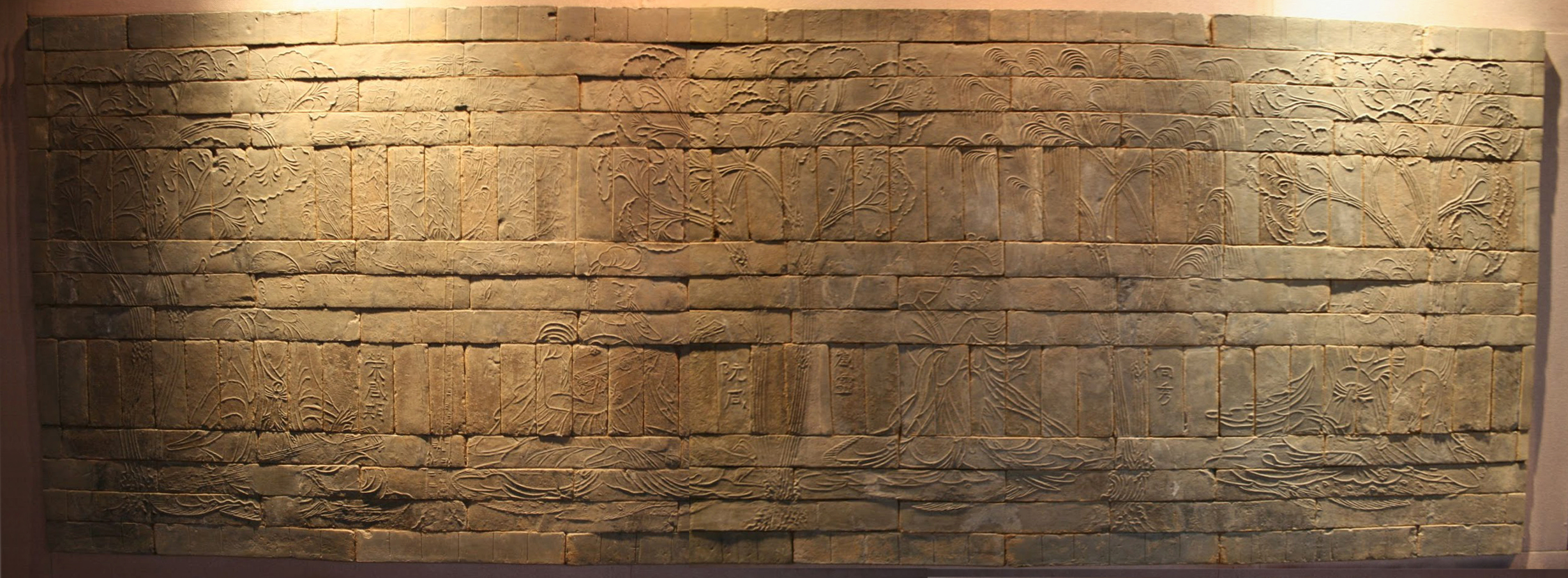 Molded-brick mural, identified as the "Seven Sages of the Bamboo Grove and Rong Qiqi", one of two walls apart of the coffin found in a tomb of the capital region of the Southern dynasties (5th-6th. c.), second half of the fifth century, at Xishanqiao, near Nanjing. 88 x 240 cm. Nanjing Museum. We can recognize from left to right Xiuang Xiu (228-281) under a gingko tree, Liu Ling (ca.221-ca.300), Ruan Xian (230-281) and Rong Qiqi (presumably act. 5th cent BC), a contemporary of Confucius, under a gingko tree too.